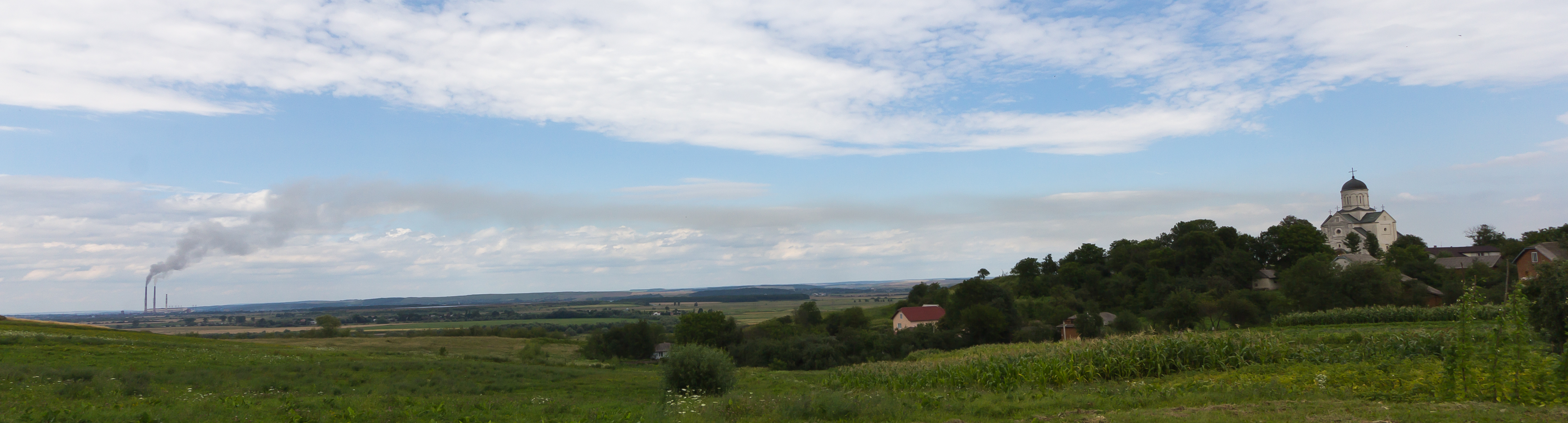 Power plant Burshtyn TES, Ivano-Frankivsk Oblast, Ukraine. View from Shevchenkovo